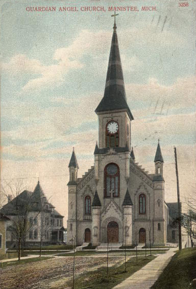 Guardian Angel Church Manistee, MI